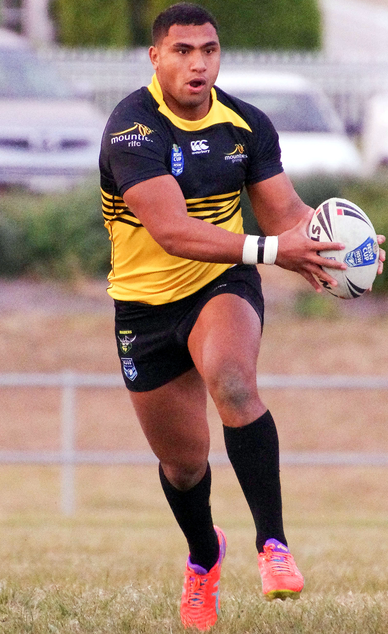 Tevita Pangai Junior